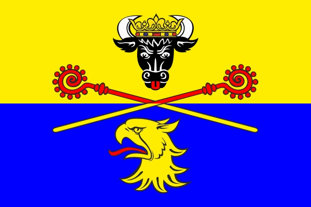 flag of the German district of Rostock